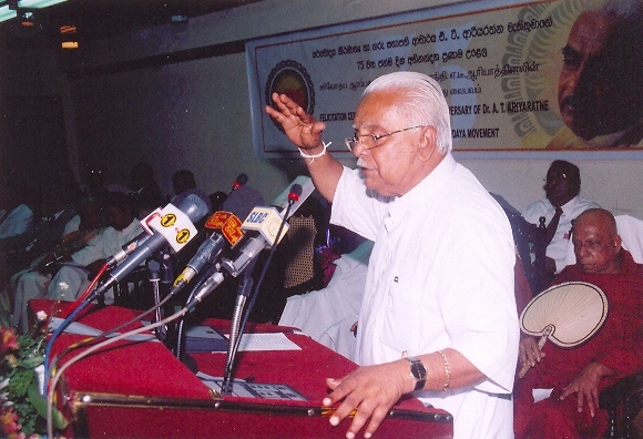 A T Ariyarathna Sarvodaya